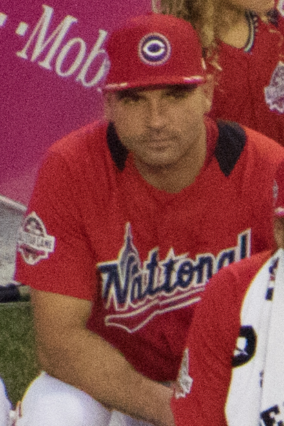 Members of the 2018 National League All-Star Team during the 2018 Major League Baseball Home Run Derby at Nationals Park.